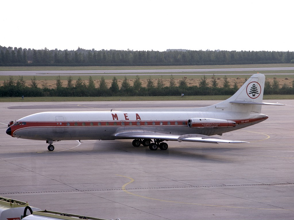 MEA Sud SE-210 Caravelle VI-N at Vienna Airport. This aircraft was destroyed on 28 December 1968 in the 1968 Israeli raid on Lebanon.